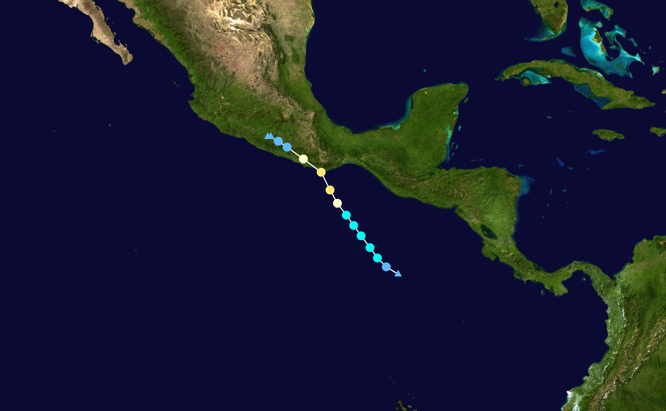 Track map of Hurricane Carlotta of the 2012 Pacific hurricane season. The points show the location of the storm at 6-hour intervals. The colour represents the storm's maximum sustained wind speeds as classified in the Saffir–Simpson scale (see below), and the shape of the data points represent the nature of the storm, according to the legend below. Saffir–Simpson scale Tropical depression≤38 mph≤62 km/h Category 3111–129 mph178–208 km/h Tropical storm39–73 mph63–118 km/h Category 4130–156 mph209–251 km/h Category 174–95 mph119–153 km/h Category 5≥157 mph≥252 km/h Category 296–110 mph154–177 km/h Unknown Storm type Tropical cyclone Subtropical cyclone Extratropical cyclone / Remnant low / Tropical disturbance / Monsoon depression